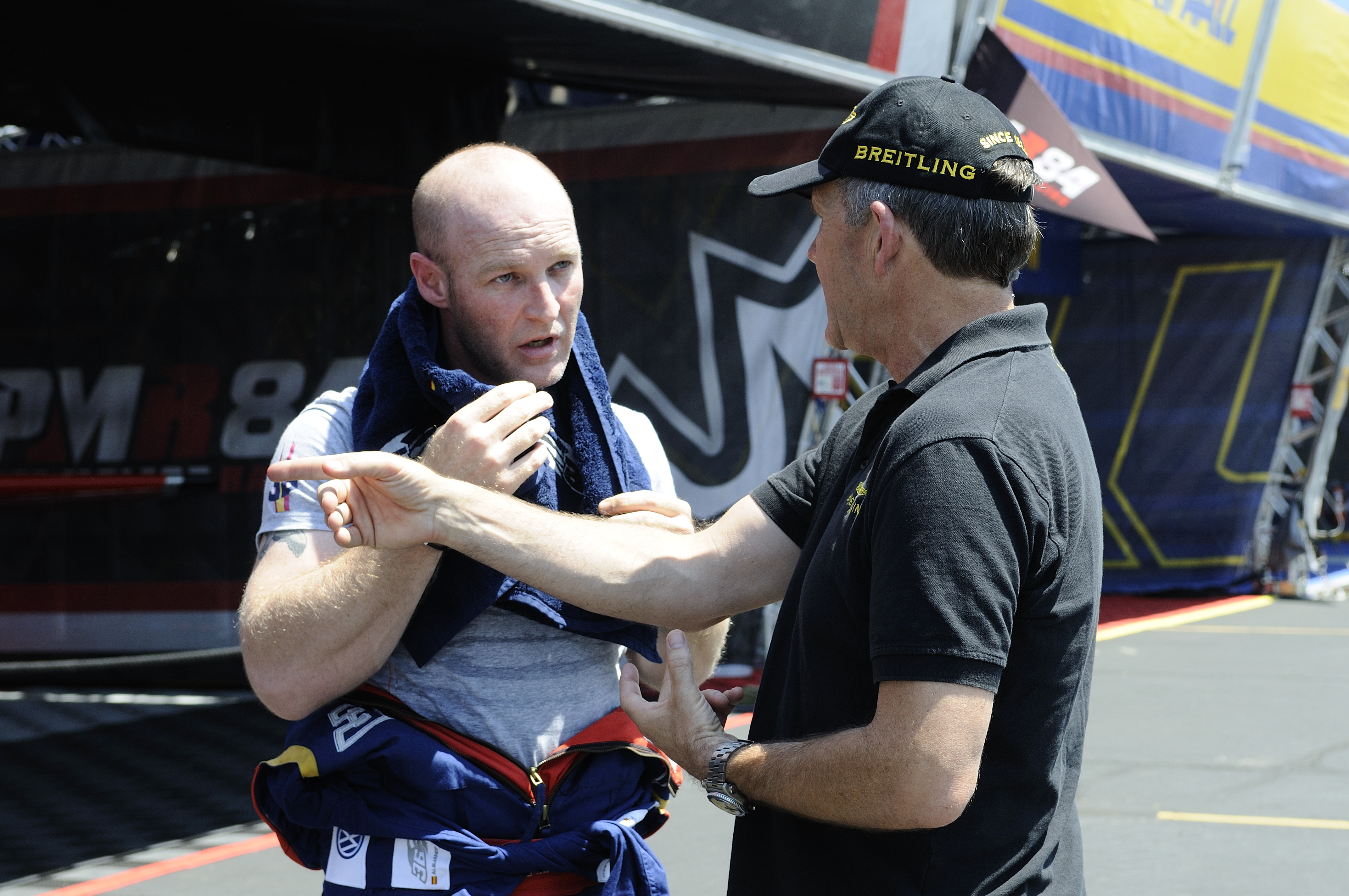 Alejandro Maclean and Nigel Lamb at the New York City Red Bull Air Race 2010